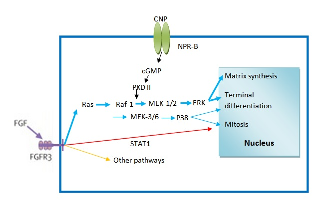 Señalización de las vías del FGFR3 más relevantes para el crecimiento condrocito